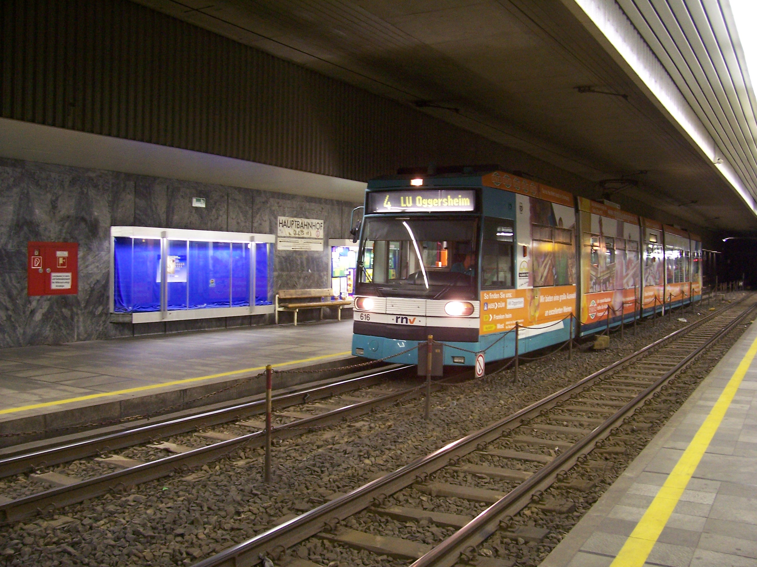 Underground tram station Hauptbahnhof in Ludwigshafen, germany